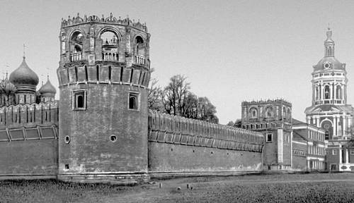 Donskoy convent in Moscow, Russia. The wall with bell-tower apart (vintage photo)